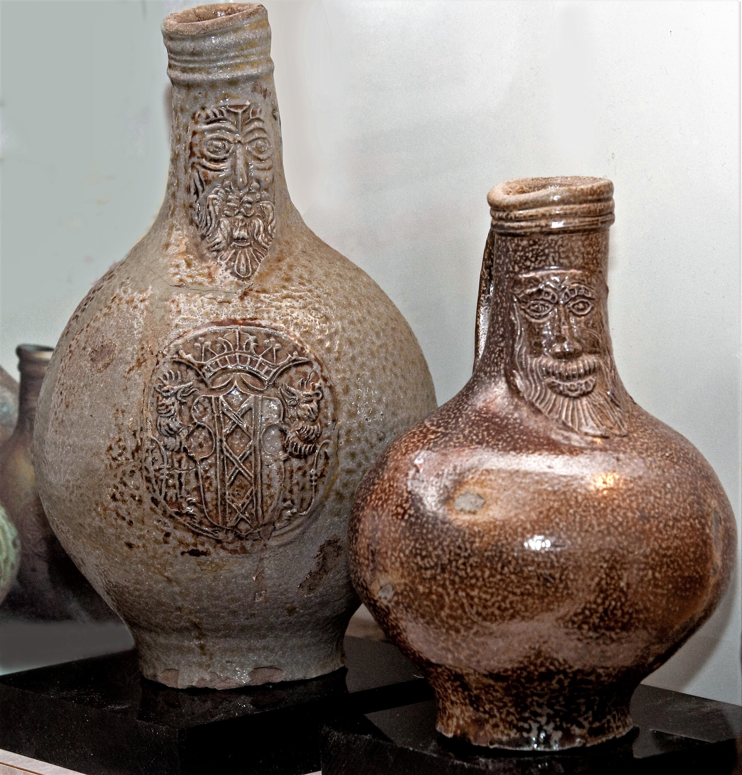 German stoneware (Bellarmine from the 1600s); The one on the left has the coat of arms of Amsterdam